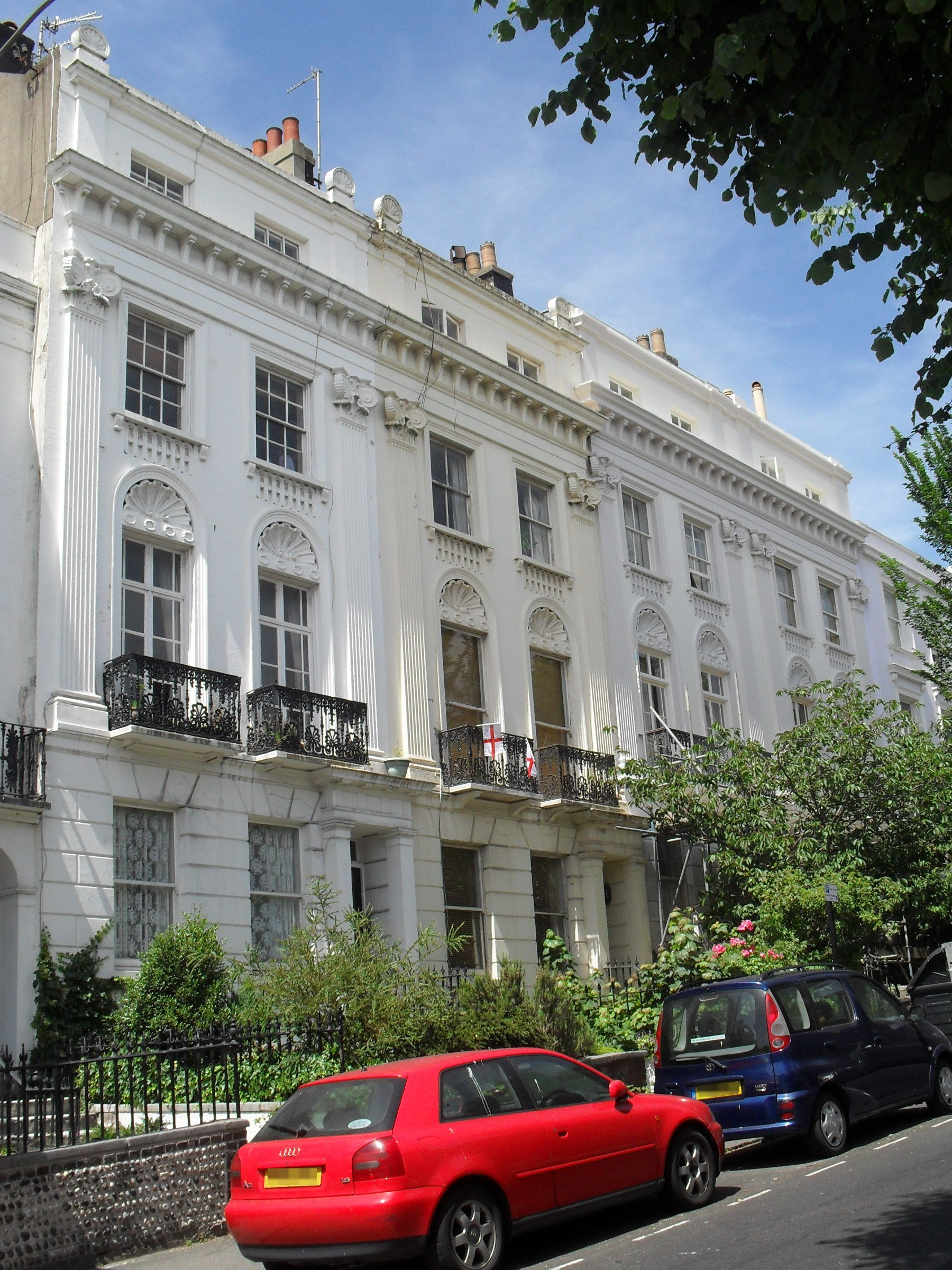 53–56 Montpelier Road, Brighton, City of Brighton and Hove, England. Listed at Grade II by English Heritage (NHLE Code 1381583)